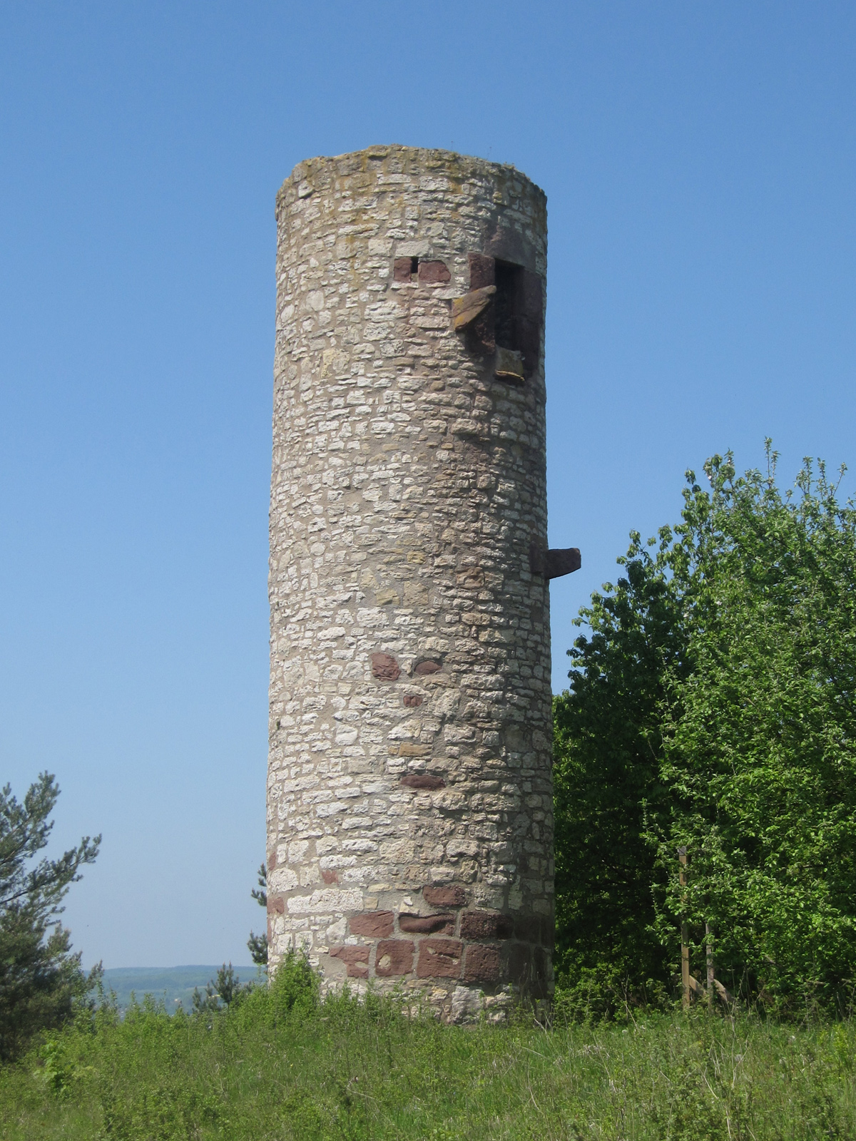 Heinturm (Heintower) on top of the Heinberg near Warburg-Ossendorf, North Rhine-Westphalia, Germany, built from 1430 on. Photograph regarding the 250th anniversary of the Battle of Warburg in 2010. The battle was fought on 31 July 1760 during the Seven Years' War at the Heinberg near todays constituent community Warburg-Ossendorf